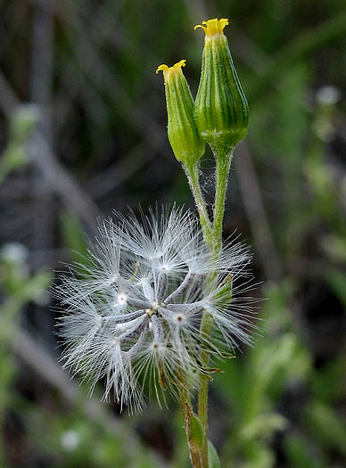 Senecio aphanactis in Wildwood Park, Santa Monica Mountains National Recreation Area, California, USA. NPS photo, no copyright.